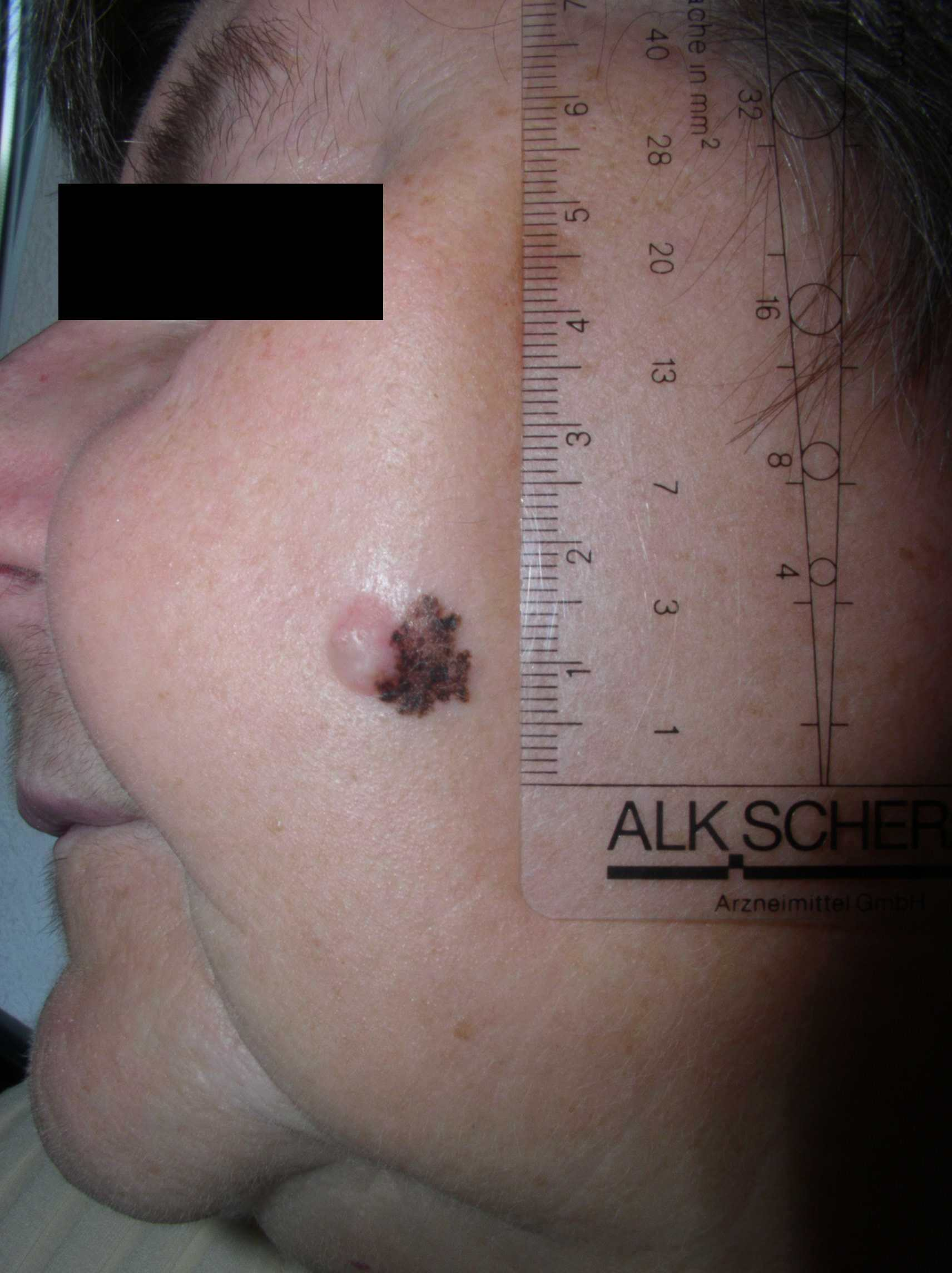 Melanoma on the left cheek in 77-year old woman